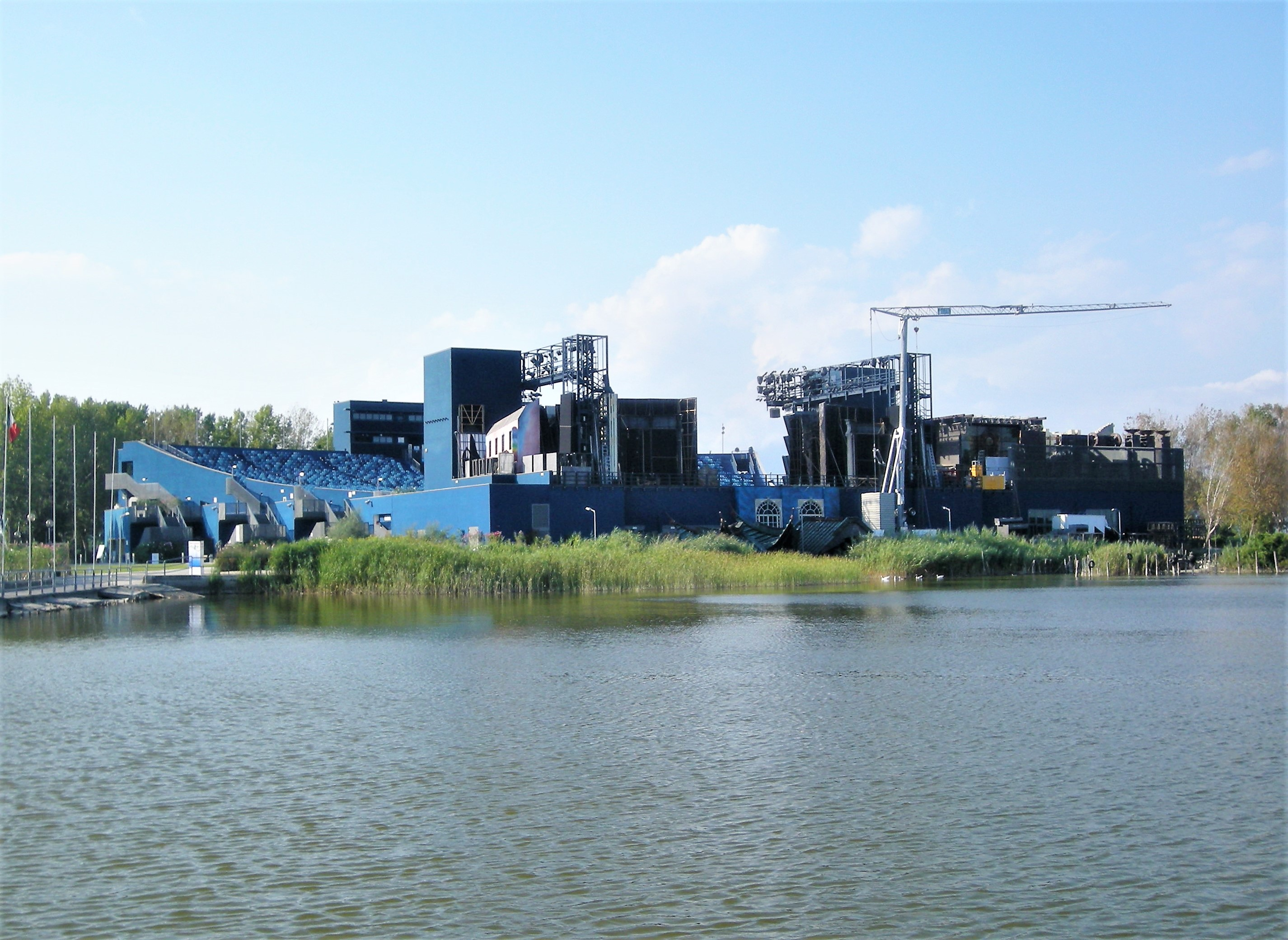 Open-air Grand Theatre Puccini, Torre del Lago, Tuscany, Italy